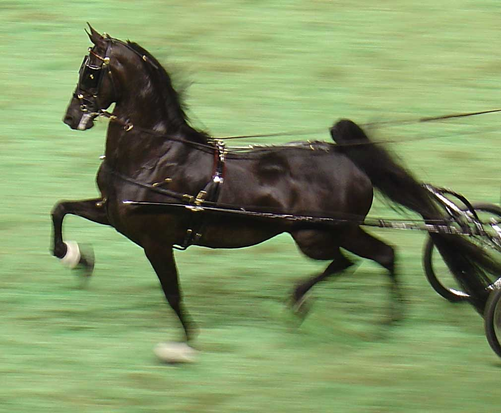 The American Saddlebred Mare, "Along Came a Spider" Photo by Heather Abounader